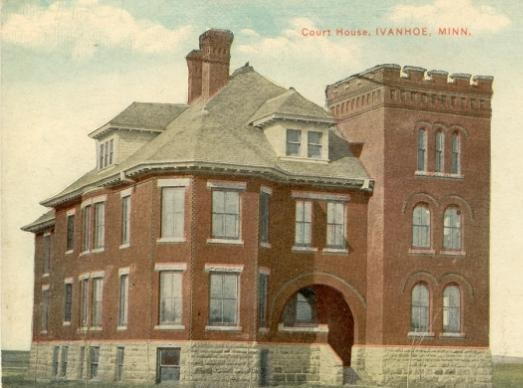 Lincoln CountyJail, Ivanhoe, Minnesota